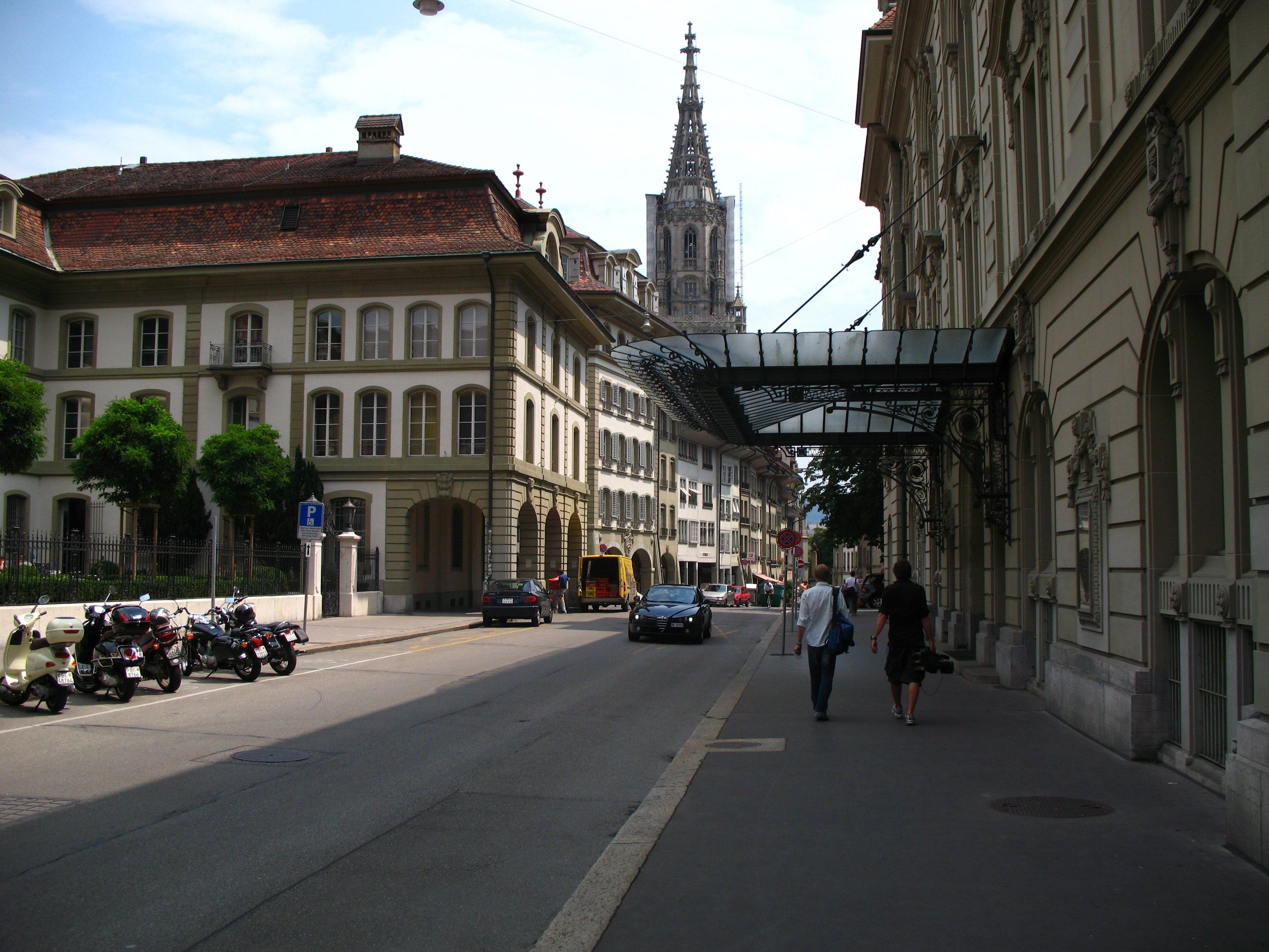 Herrengasse ("Gentleman's Street"), Berne, Switzerland